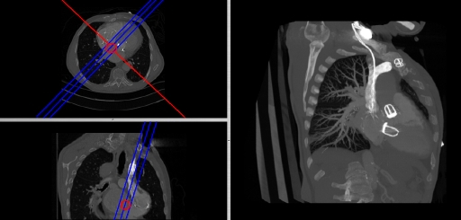 Angled MPR with a MIP for a CT scan. Generated by Kieran Maher using OsiriX. marz 05:28, 23 October 2006 (UTC)